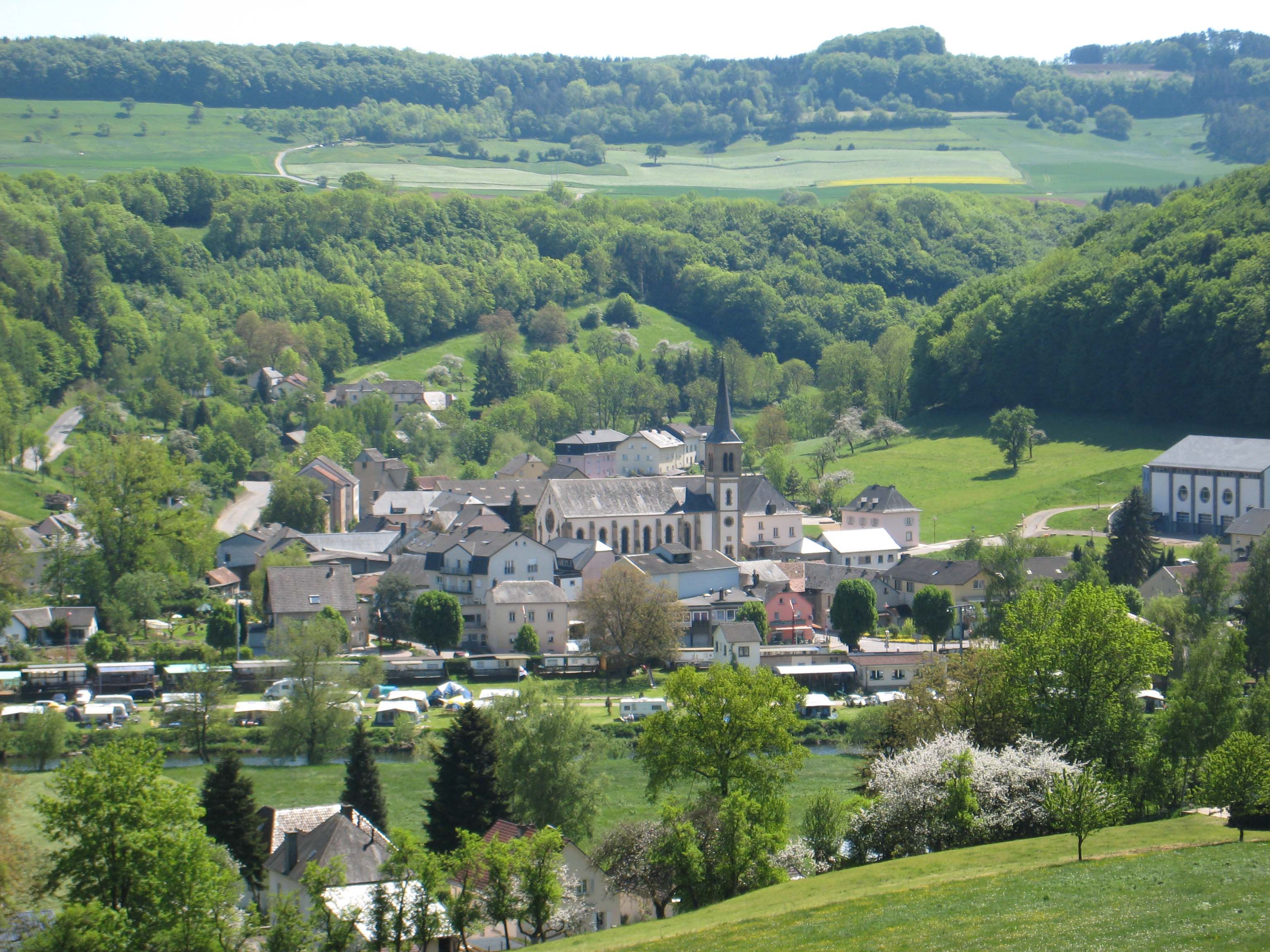 View of Reisdorf from the north